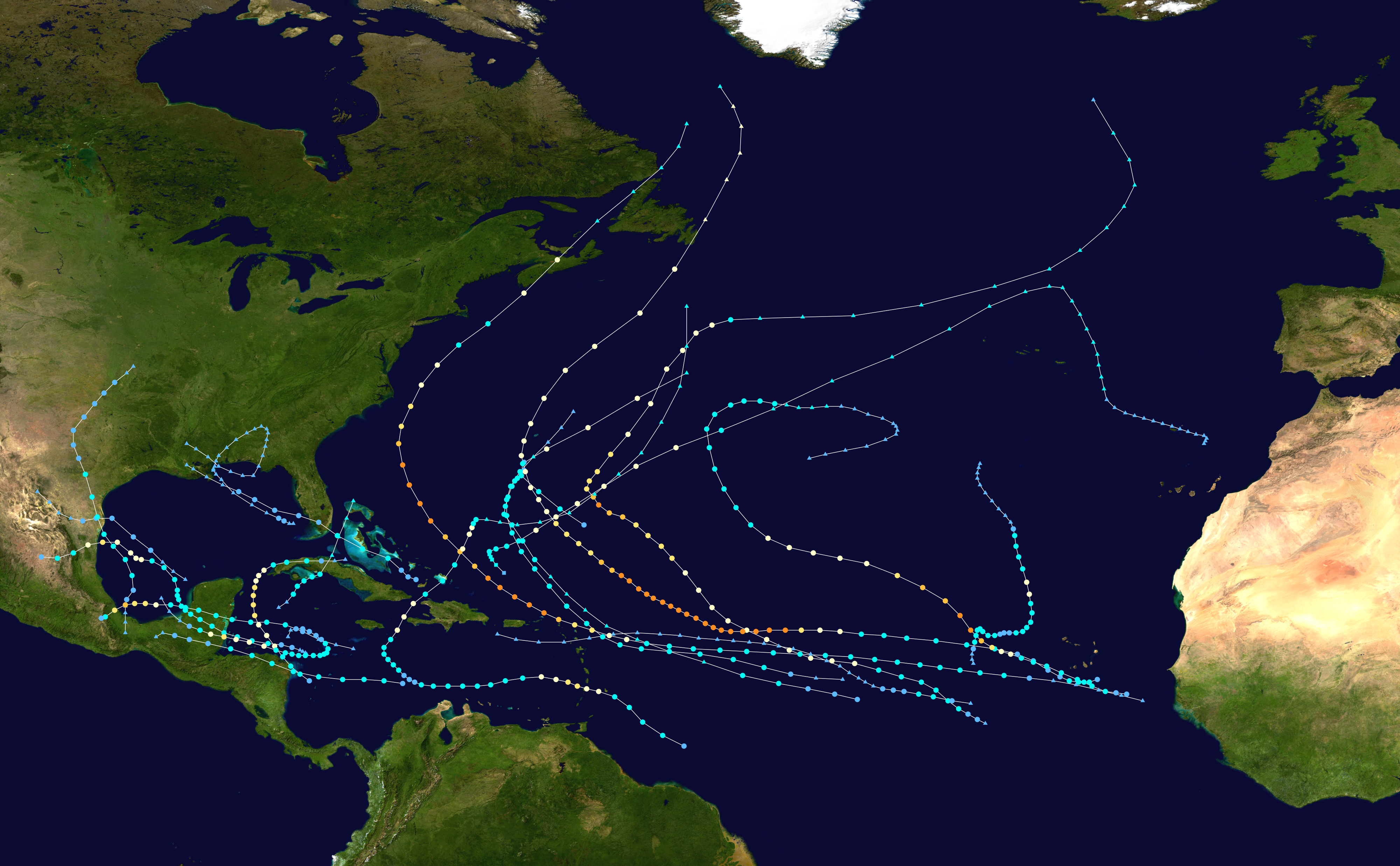 This map shows the tracks of all tropical cyclones in the 2010 Atlantic hurricane season. The points show the location of each storm at 6-hour intervals. The colour represents the storm's maximum sustained wind speeds as classified in the Saffir-Simpson Hurricane Scale (see below), and the shape of the data points represent the type of the storm. Saffir–Simpson scale Tropical depression≤38 mph≤62 km/h Category 3111–129 mph178–208 km/h Tropical storm39–73 mph63–118 km/h Category 4130–156 mph209–251 km/h Category 174–95 mph119–153 km/h Category 5≥157 mph≥252 km/h Category 296–110 mph154–177 km/h Unknown Storm type Tropical cyclone Subtropical cyclone Extratropical cyclone / Remnant low / Tropical disturbance / Monsoon depression